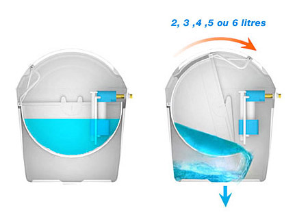 Toilet flush without internal joints, less water consumption, no more leaks in the toilet, but also no more broken or blocked flush buttons.